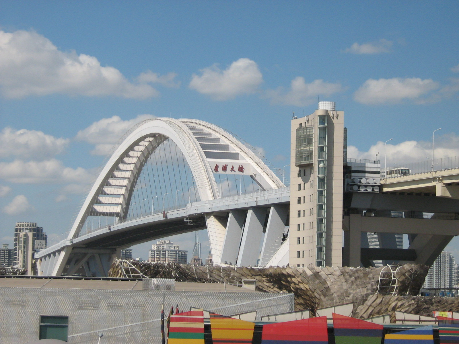 Lupu Bridge at 2010 Shanghai Expo, taken from the Denmark Pavillion